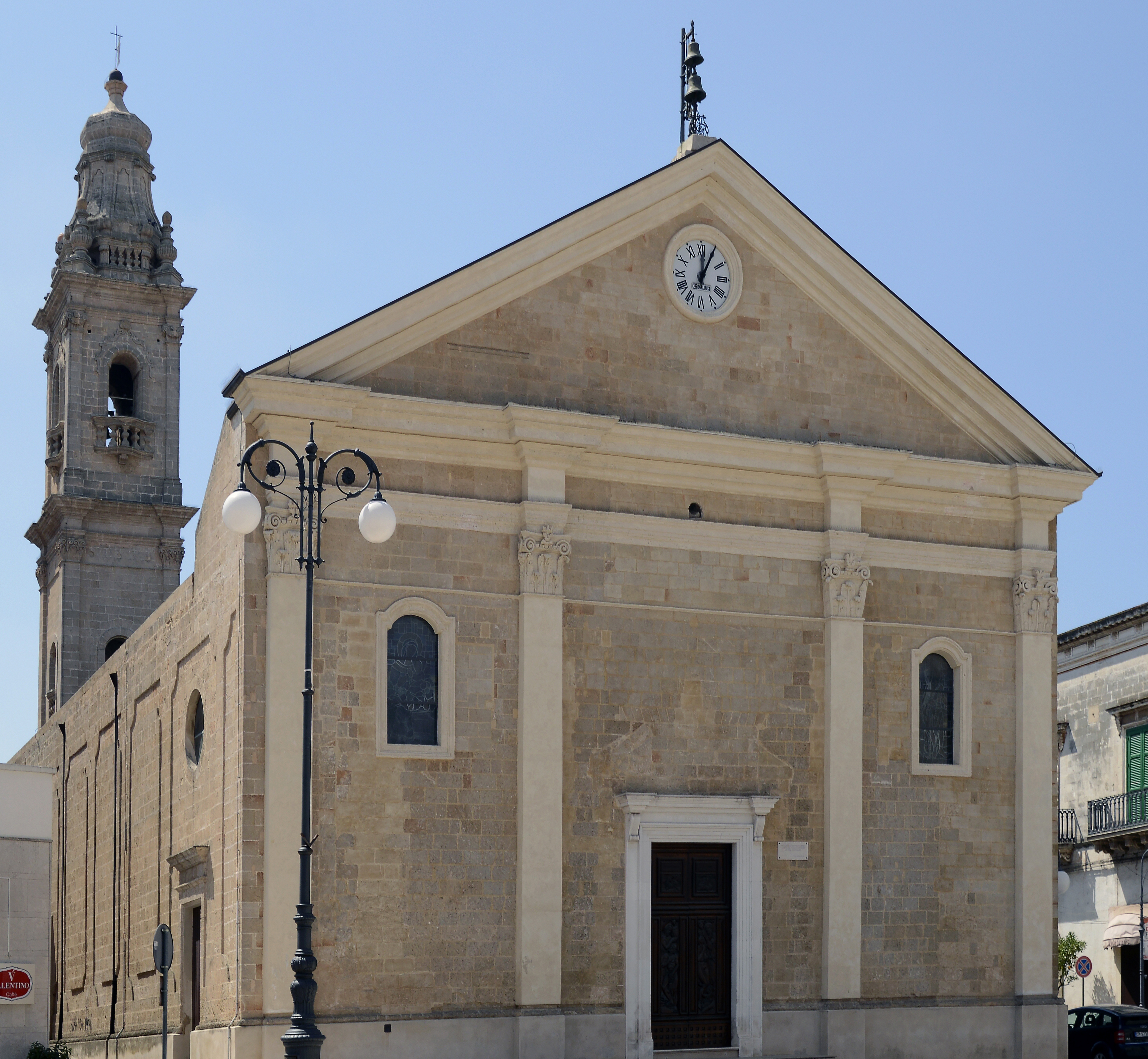 Mother Church of Sava